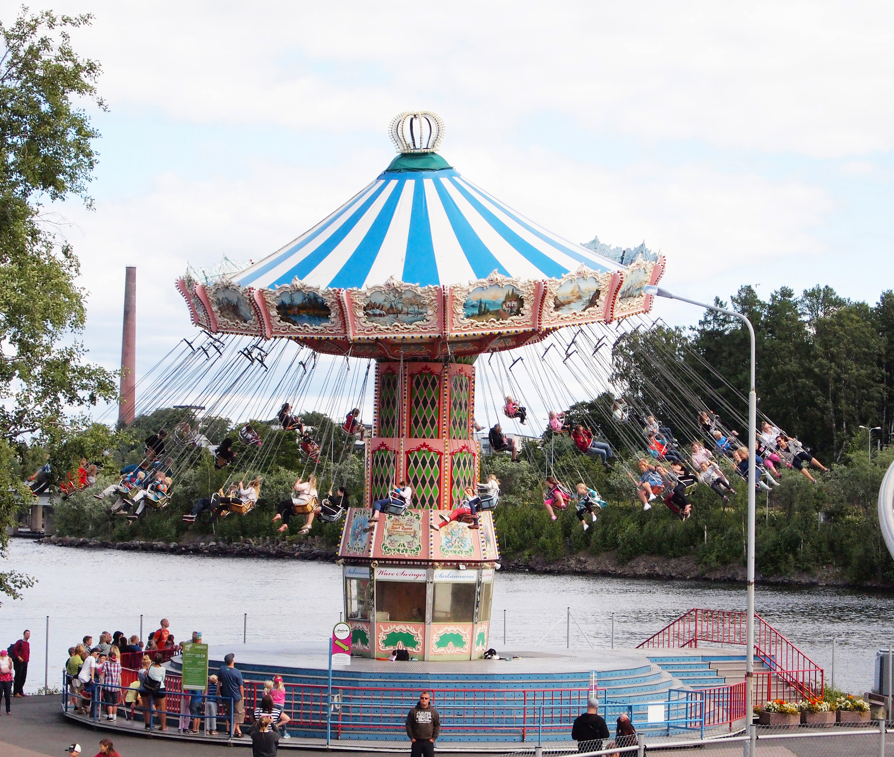 Ilmaveivi ride in Särkänniemi amusement park, Tampere. This photograph was taken with a Olympus E-PL1.